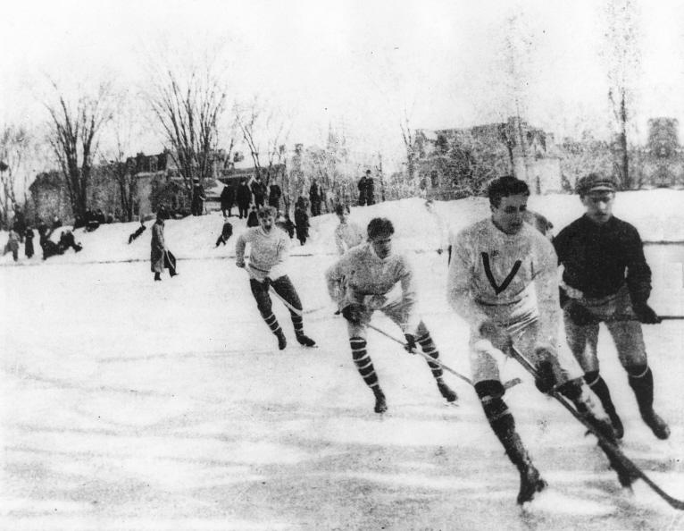 Photograph - Graham Drinkwater and Victorias hockey team, Westmount, QC, about 1895 - Silver salts on paper mounted on card - Gelatin silver process